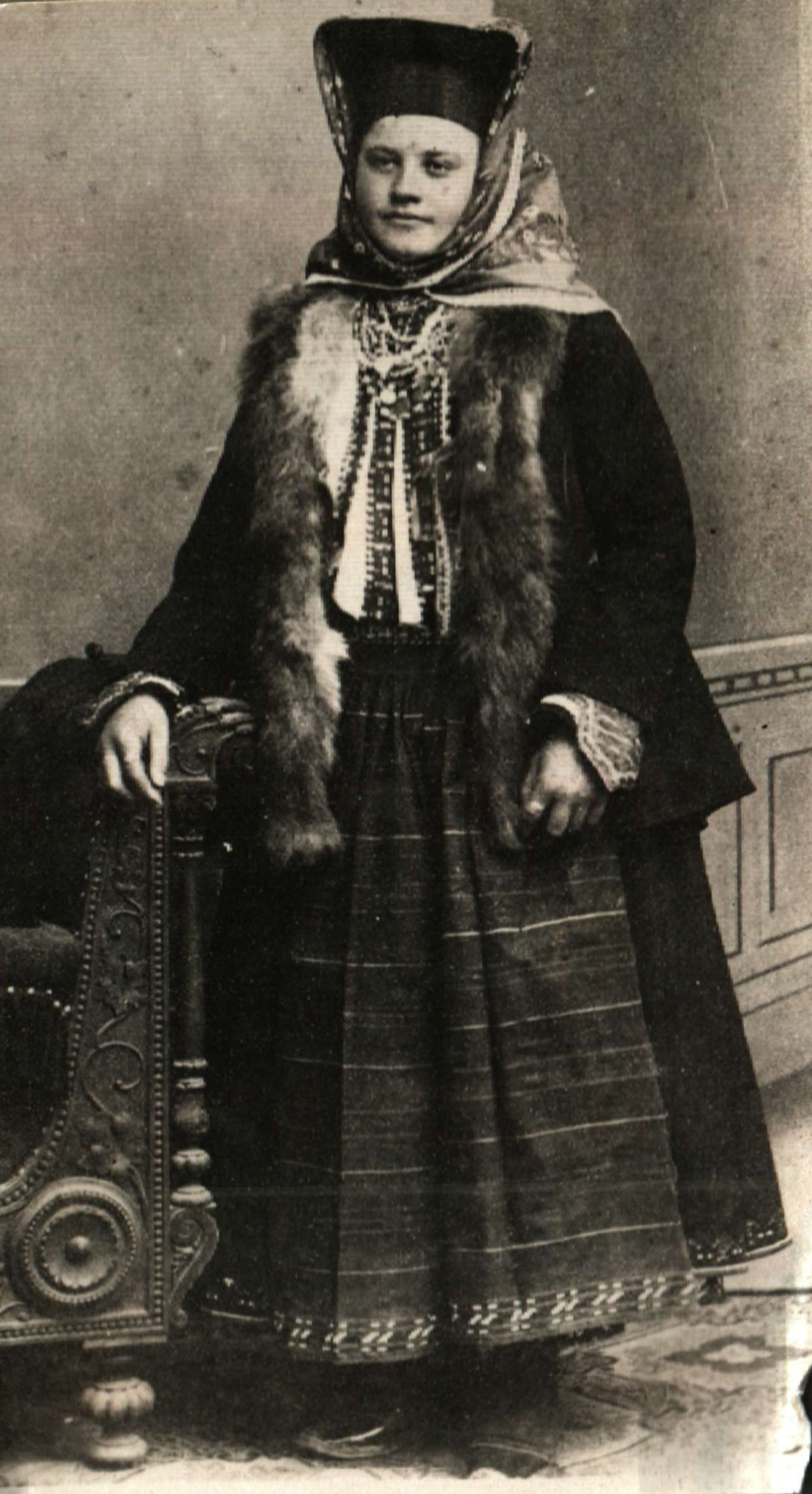 National costume from Rousse region.